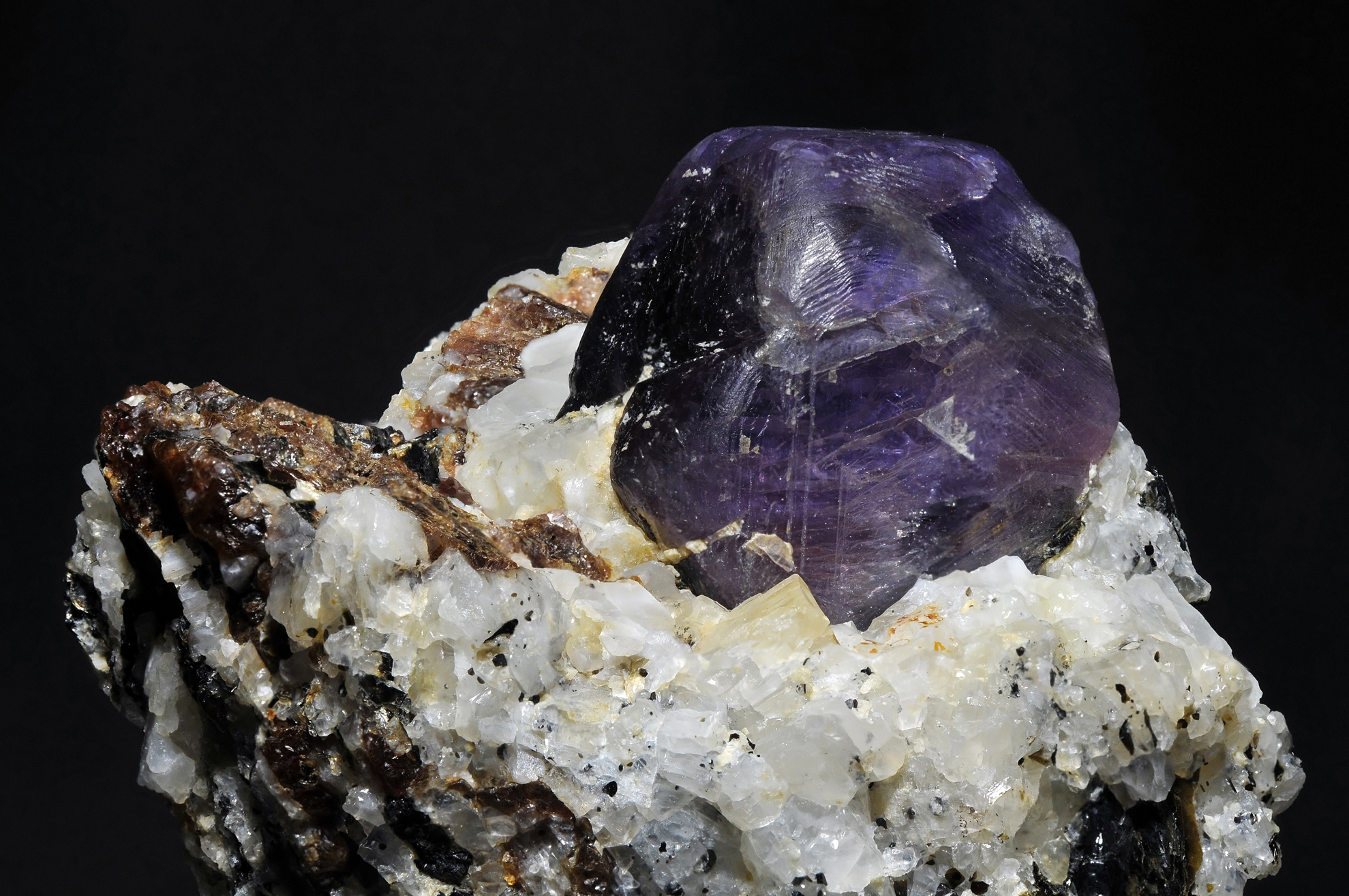 crystal of corundum var. sapphire, crystals of feldspar var. albite, crystals of mica var. biotite : Zazafotsy Quarry (Amboarohy) Zazafotsy Commune, Ihosy District, Horombe Region, Fianarantsoa Province, Madagascar